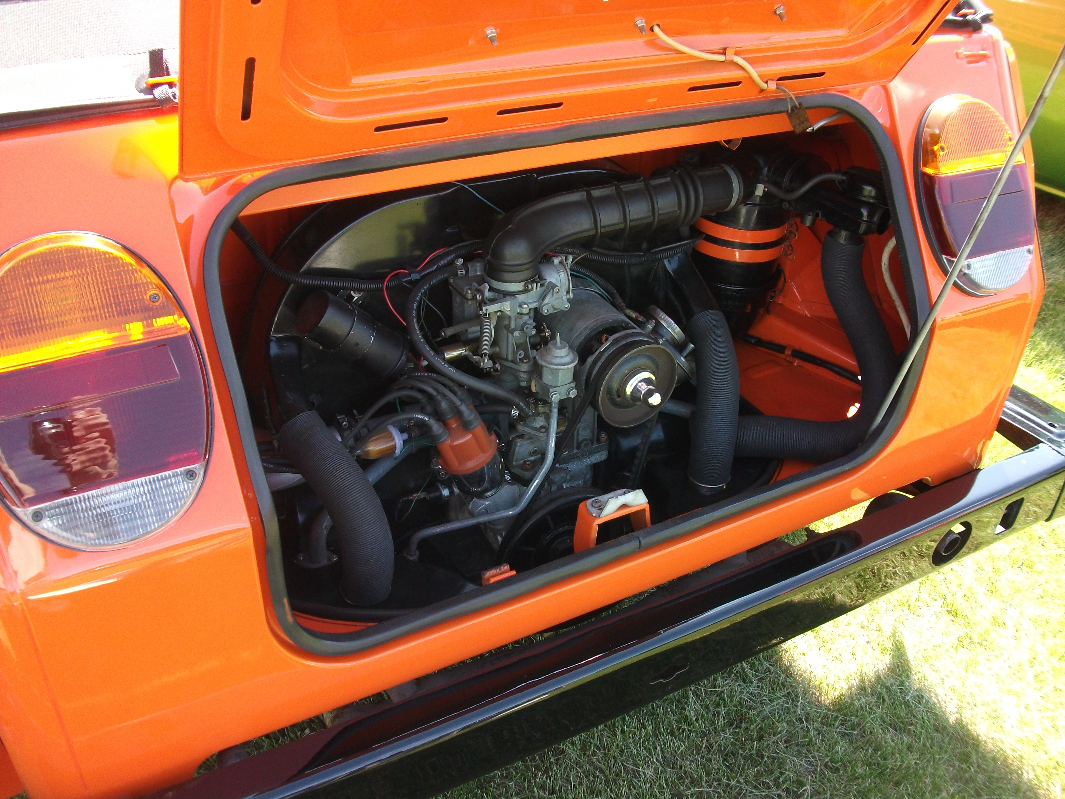 Rear mounted engine of a Volkswagen Thing